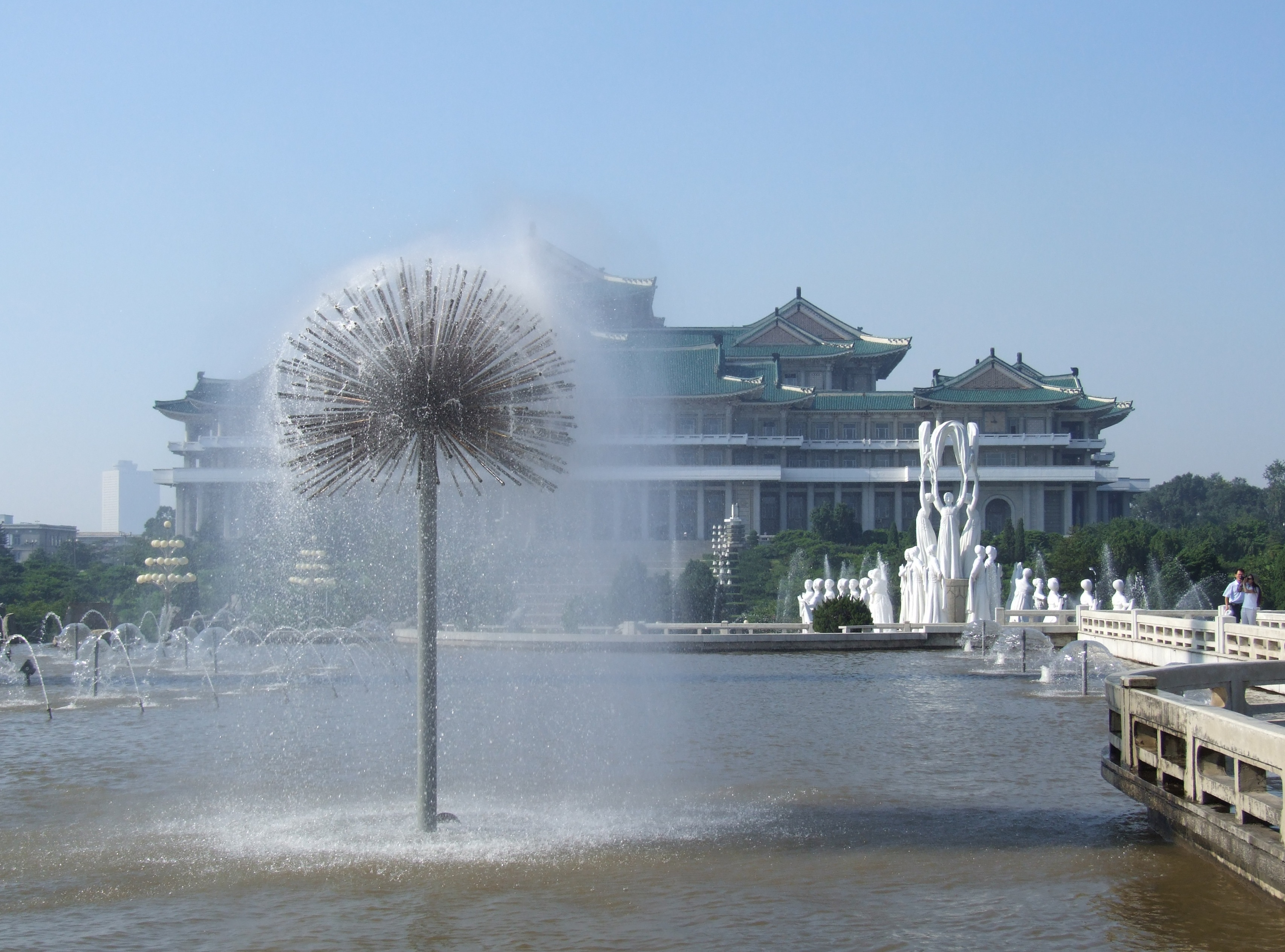 Mansudae Fountain Park